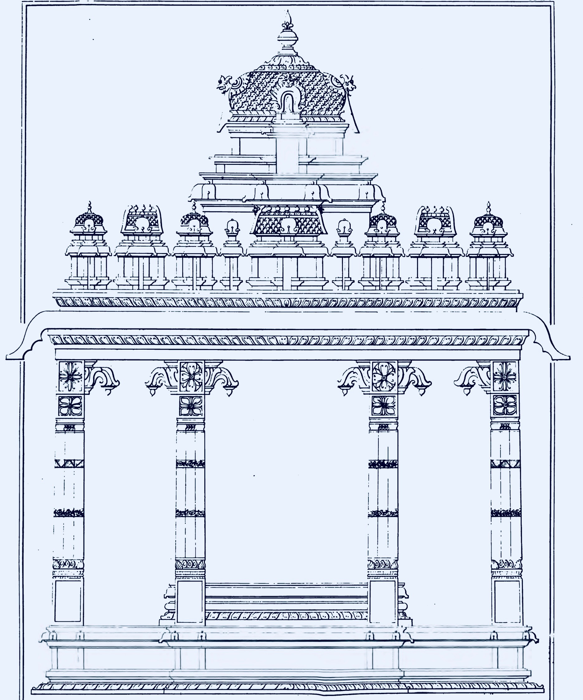 This is a photo of sketches made by Ram Raz and published in 1834. The source images can be found in Ram Raz (1834) Essay on the Architecture of the Hindus, Royal Asiatic Society of Great Britain and Ireland. A scholarly review of this source: Madhuri Desai (2012), Interpreting an Architectural Past Ram Raz and the Treatise in South Asia, Journal of the Society of Architectural Historians, Vol. 71, No. 4, pages 462-487